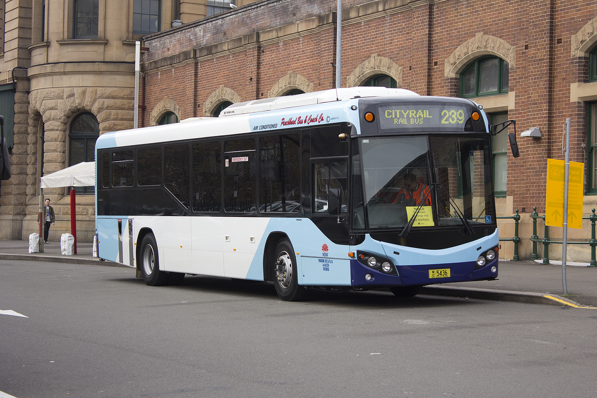 Transport NSW liveried (mo 5436), operated by Punchbowl Bus Co, Custom Coaches 'CB80' bodied Volvo B7RLE at Central Station in Sydney.